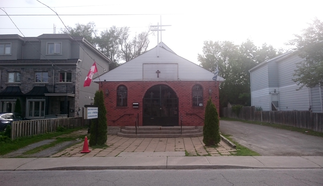 The Greek Orthodox Church of the Holy Martyrs Raphael, Nicholas, and Irene in Toronto, Ontario, Canada.